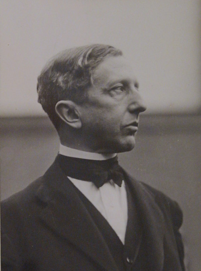 Sir Eric MacLagan, CBE, FSA. Director and Secretary of the Victoria and Albert Museum, 1924 – 1944